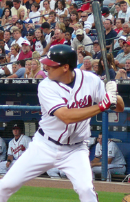 Picture I took of Kelly Johnson on 6-5-07 22:06, 7 June 2007 . . Chrisjnelson . . 189×292 (123,298 bytes)